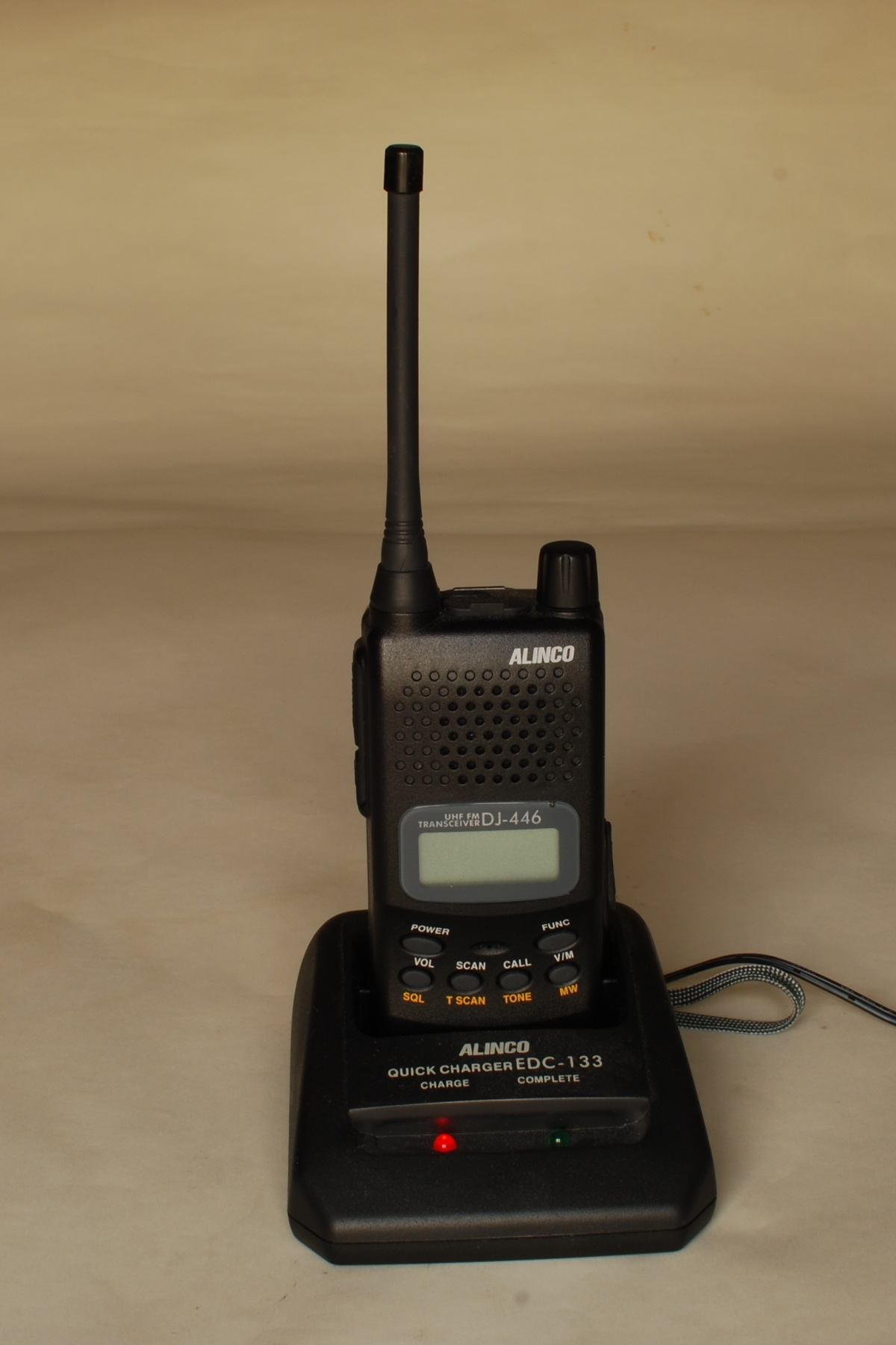 Alinco DJ-446 PMR446 two-way radio with EDC-133 charging base.